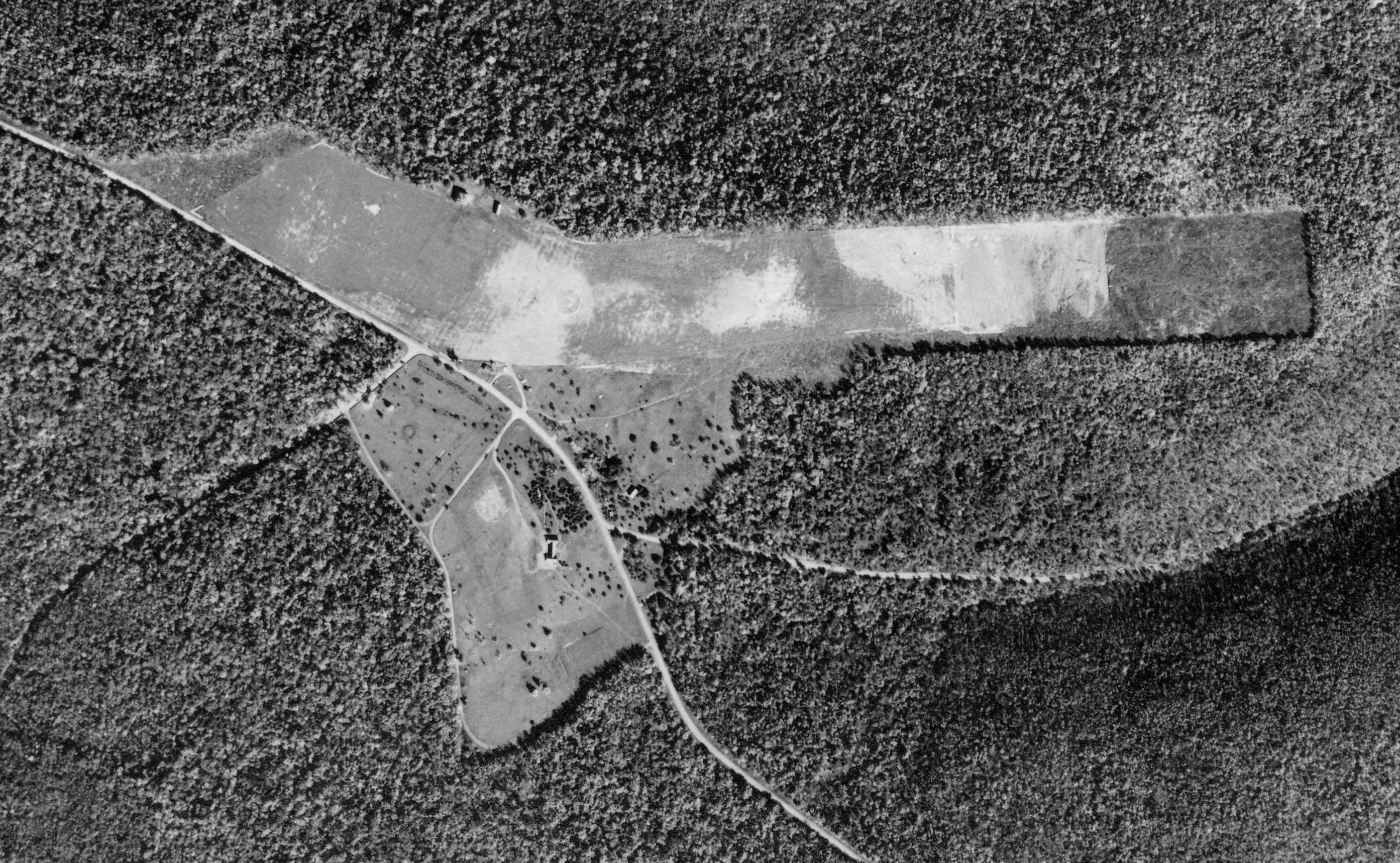 Cropped aerial photo of Cherry Springs State Park and adjoining Cherry Springs Airport in West Branch Township, Potter County, Pennsylvania in the United States. Pennsylvania Route 44 (the Coudersport-Jersey Shore Turnpike) is the highway crossing diagonally from upper left to bottom right. North is up.